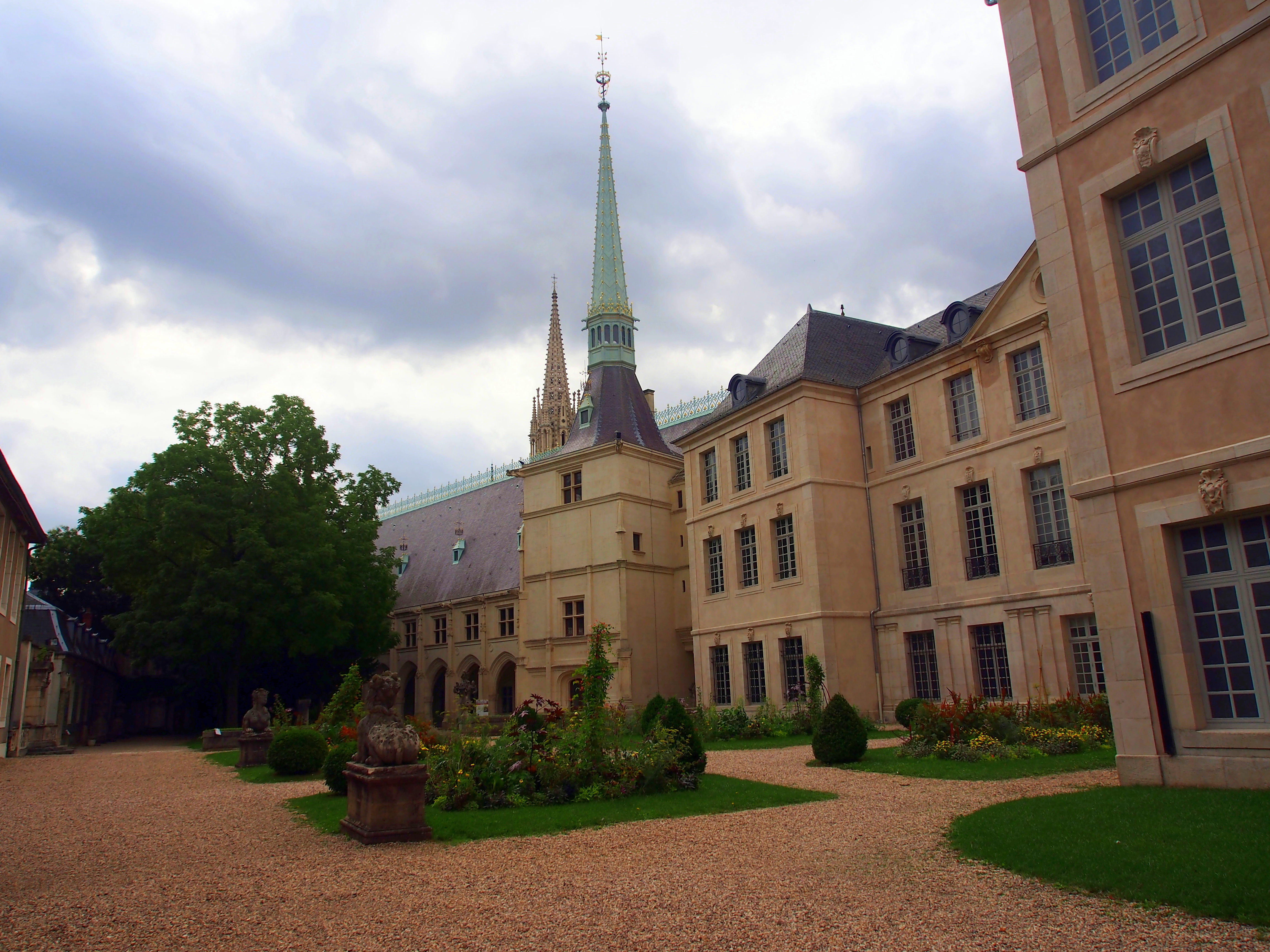 Photographed in Nancy, France.